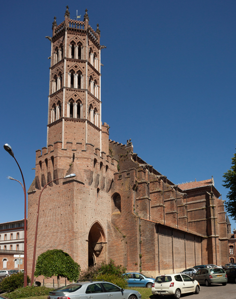 Cathédrale Saint-Antonin; Pamiers, Ariège, Midi-Pyrénées, France; ; ref: PM_093026_F_Pamiers; ancienne cathédrale; Photographer: Paul M.R. Maeyaert; © Paul M.R. Maeyaert; ; Cultural heritage; Cultural heritage/Cathedral; Europeana